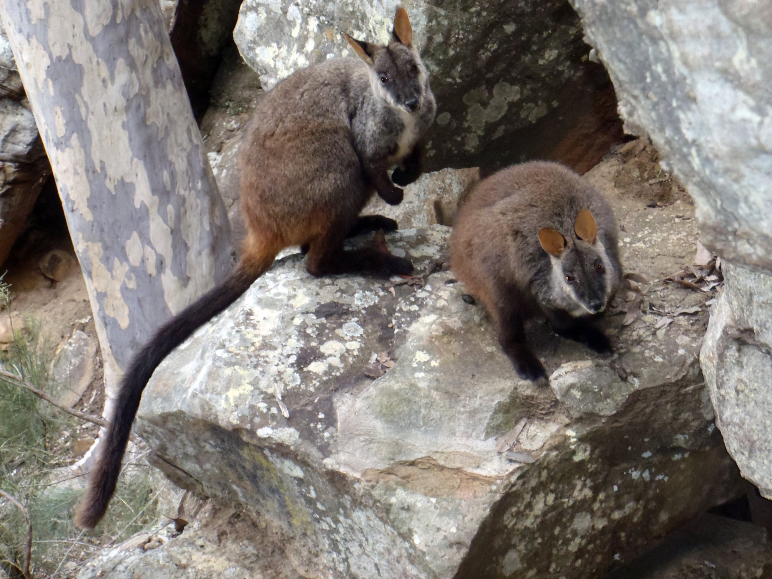 Brush-tailed Rock-wallabies in the Watagan Mountains on the NSW Central Coast. Photos Courtesy of Mark Hodgins